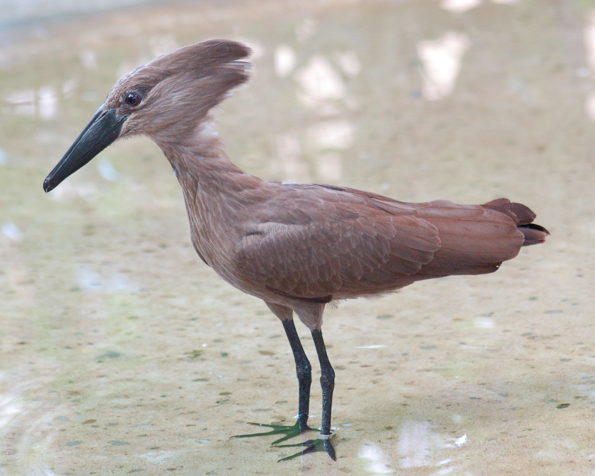 A photograph of Hammerkopen (Scopus umbretta en ). Photo taken at the National Aviary.